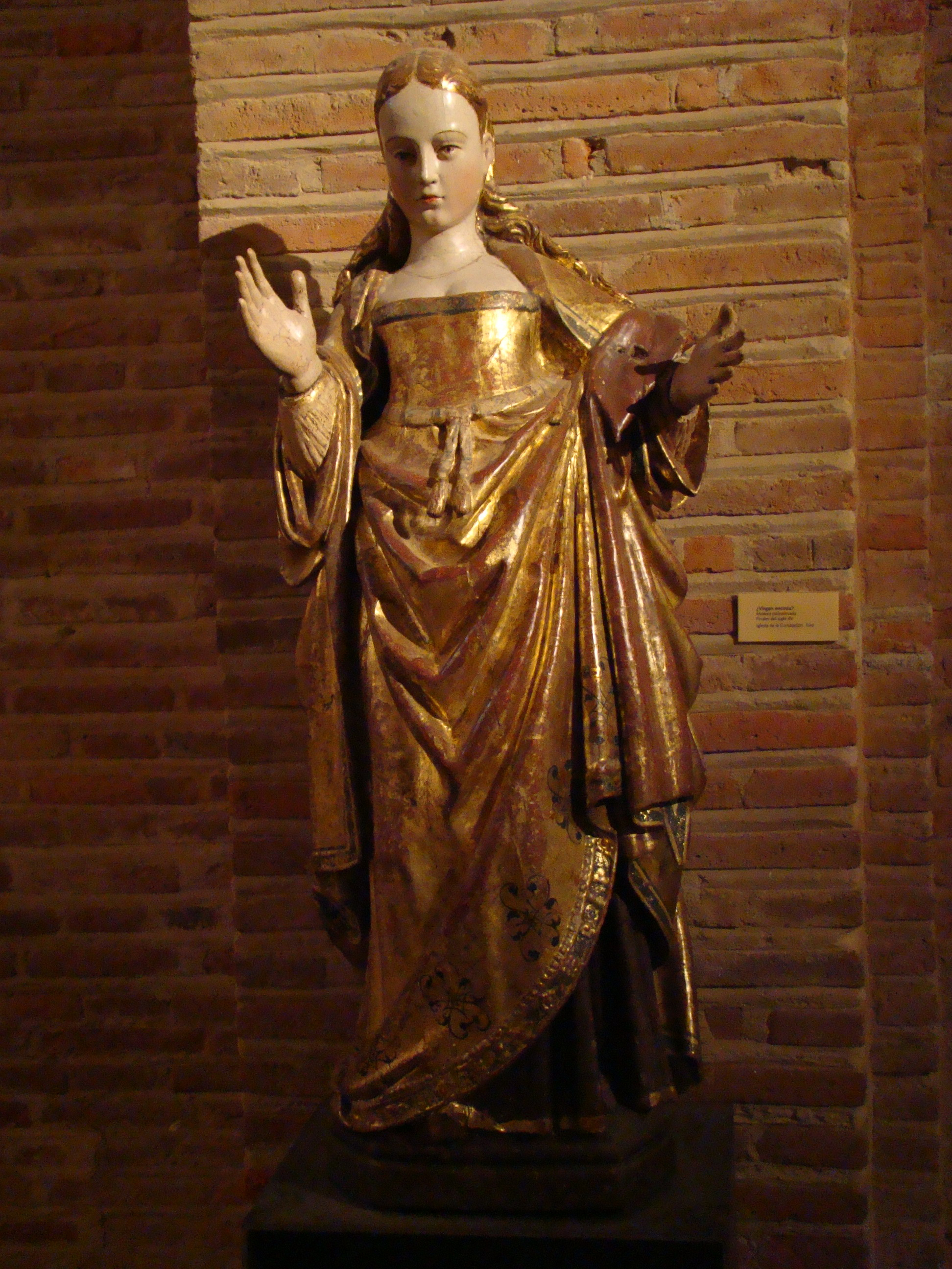 Pregnant virgin, 15th century, belonging to the church of the Concepción (Toro). It is kept in the museum of the church of San Salvador (Toro).